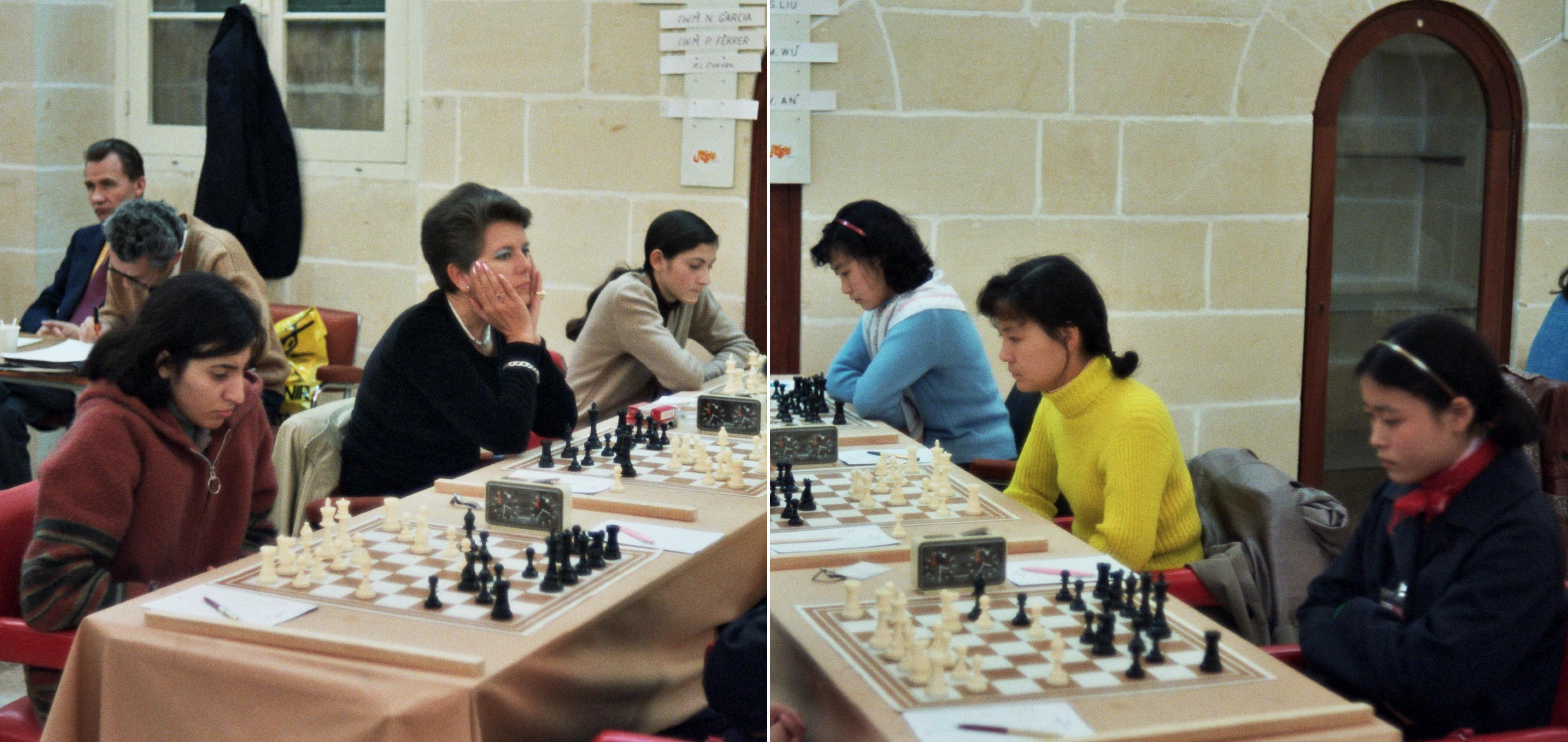 Match: Spain - China, Chess Olympiad 1980 in Valetta on Malta (García Vicente, Nieves - Liu Shilan; Ferrer Lucas, Pepita - Wu Mingqian; Cuevas Rodríguez, María Luisa - An Yangfeng), Photographer Gerhard Hund.